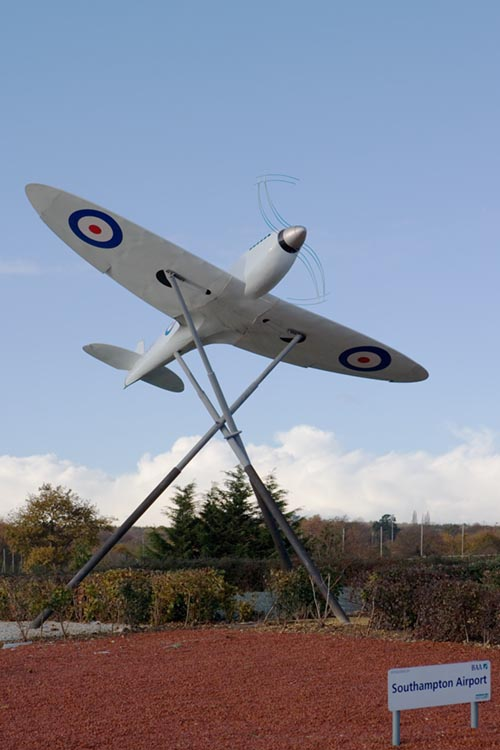 The near full-scale model Supermarine Spitfire Mk V designed by R.J.Mitchell which is on the approach road to Southampton Airport Author: Antony McCallum